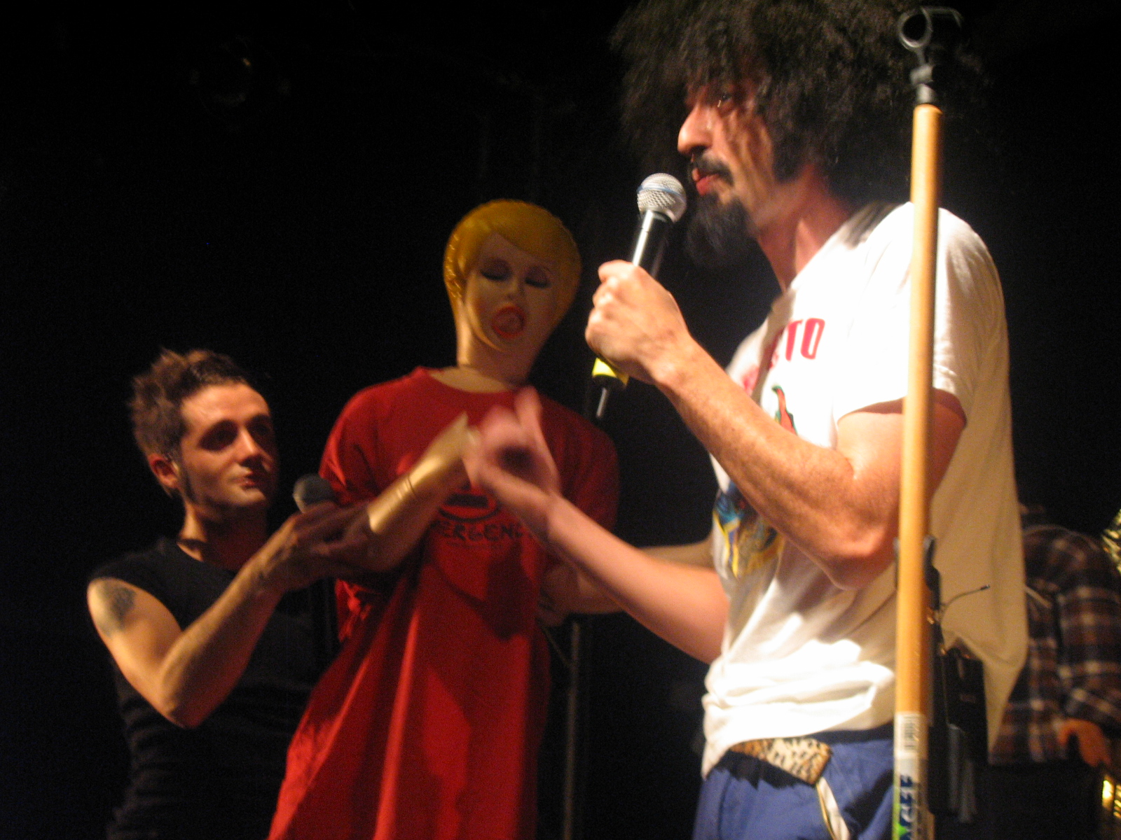 Italian rapper Caparezza live in Hiroshima Mon Amour, Turin, on 15 april 2006.